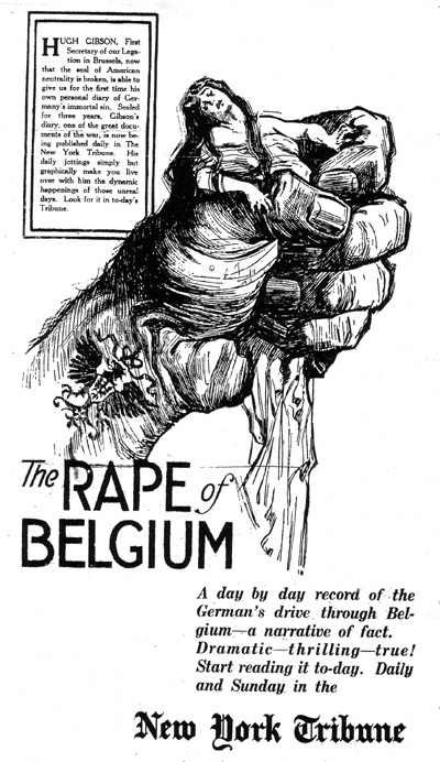 Cartoon of "The Rape of Belgium" showing giant hairy fist with Prussian eagle grasping maiden in flowing robes. From information in the text, advertising excerpts from a government official's diary published in a New York newspaper three years after the events, this must have been published in the United States ca. 1917.